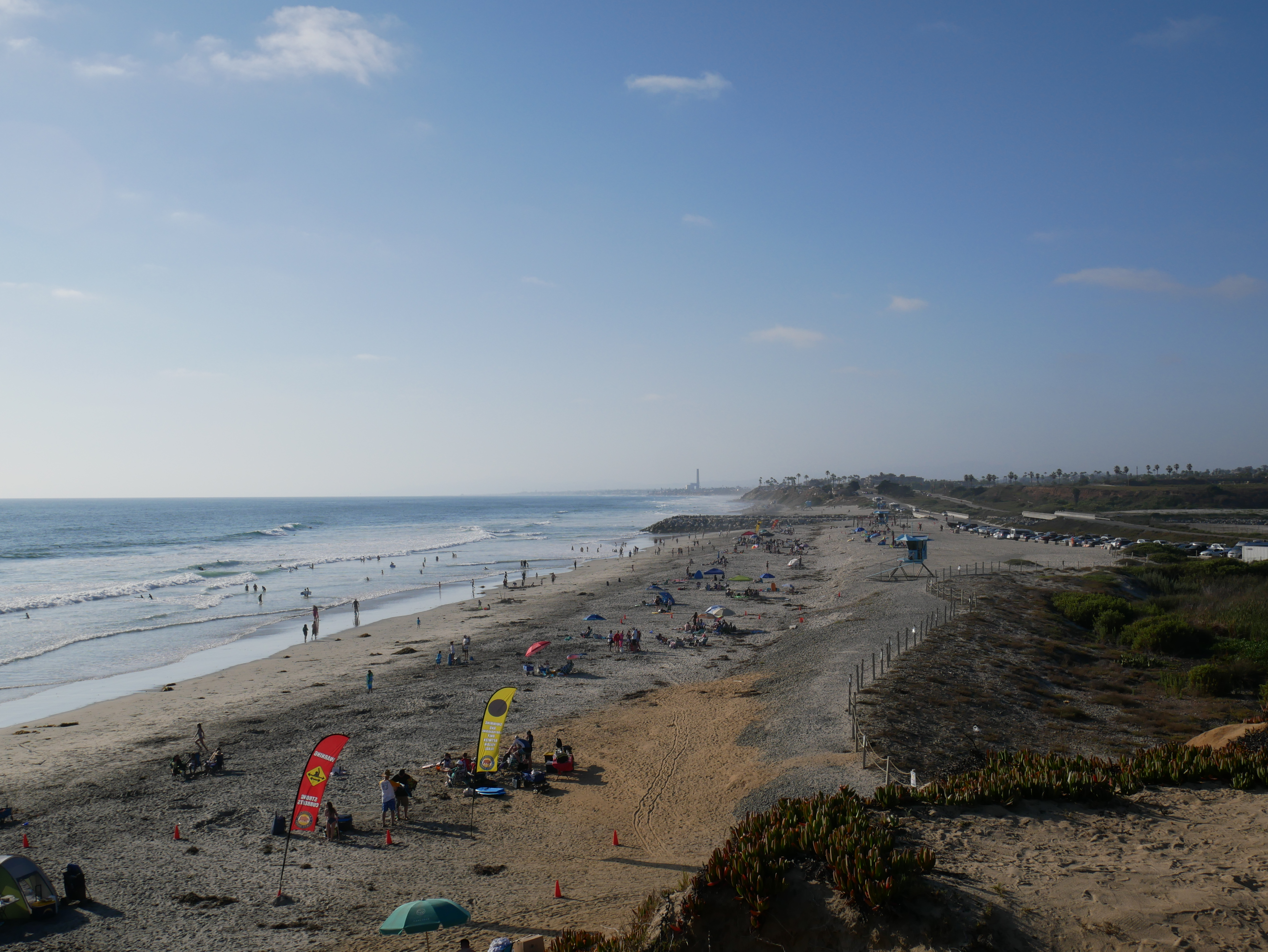 Looking north to the South Carlsbad State Beach, with a large Fourth of July weekend crowd, as viewed from the vista point hill with the large compass. In the foreground, we can see the “South Ponto” beach; behind that, we can see the campgrounds. A polarizing filter was used to make the sky darker and clouds more visible. Gear used: Panasonic Lumix GX85 w/ kit (12-32mm f/3.5-5.6, 24-64mm equivalent) lens.